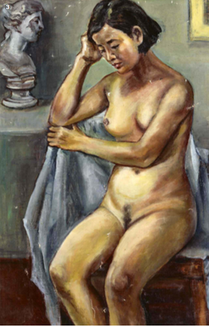 裸女（水彩）